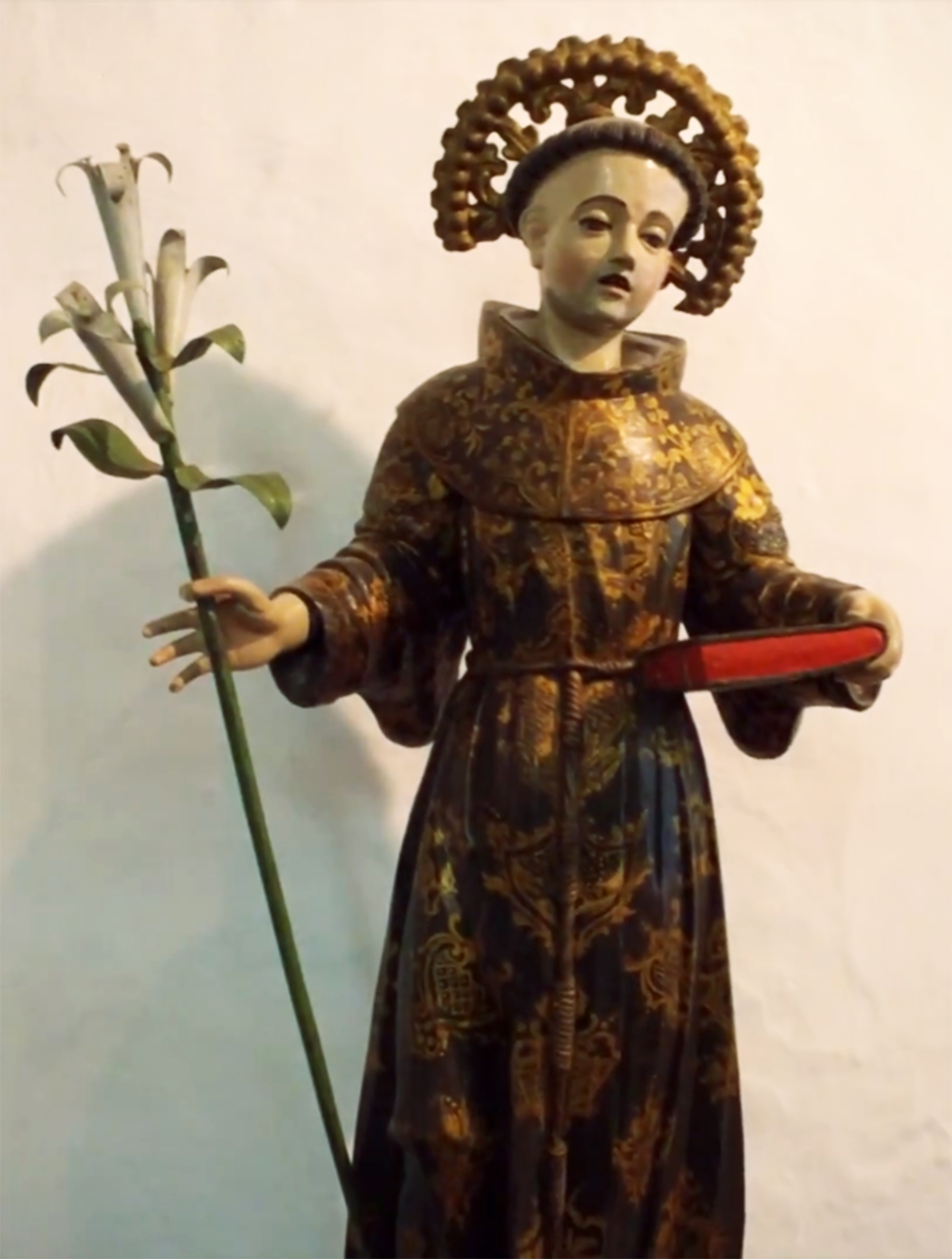 Sculpture (wood) "Saint Anthony of Padua" - anonymous (17th century. Religious art - Museum of the Concepción - Riobamba Ecuador.